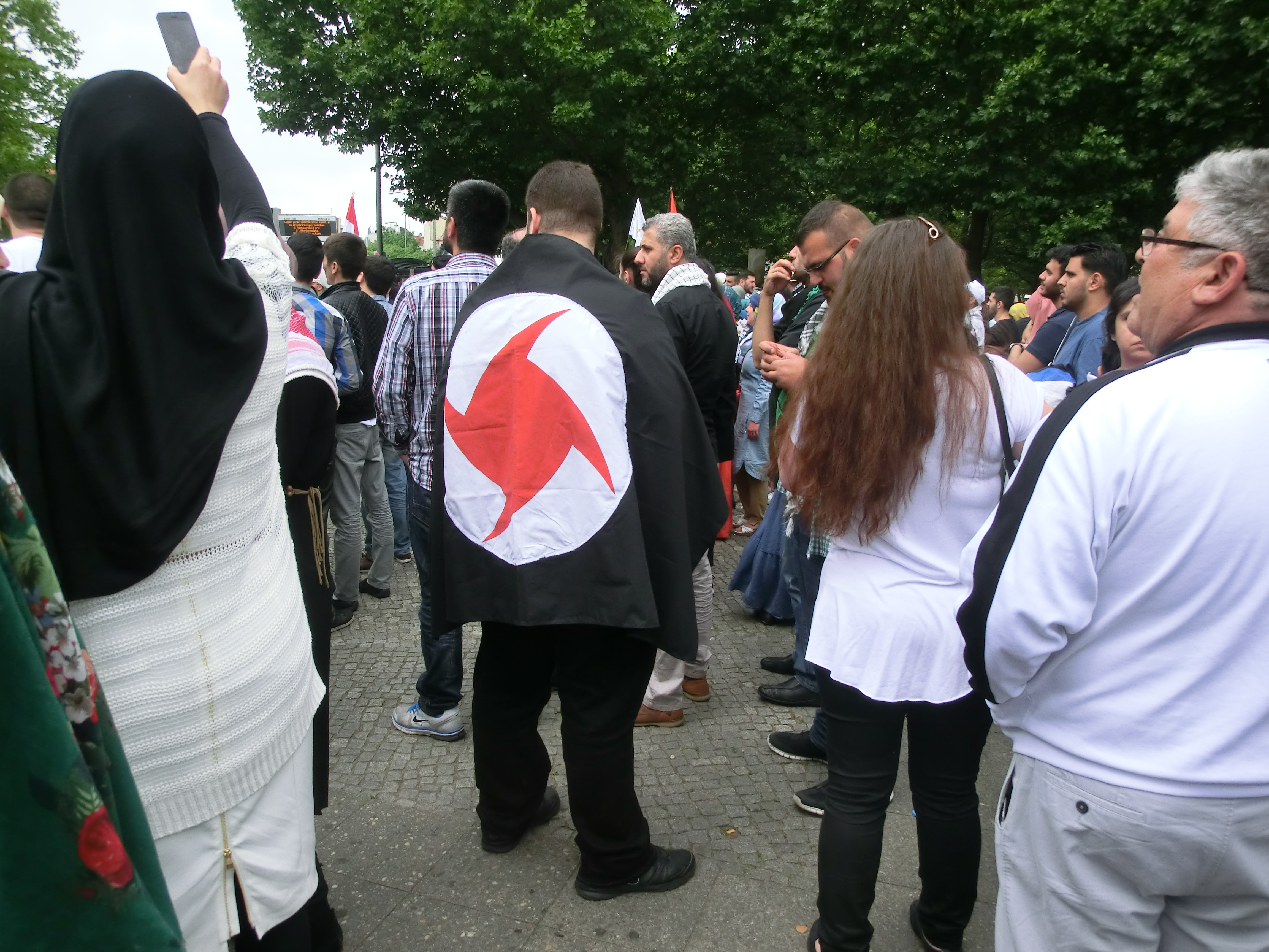 Flag of "Syrian Social-Nationalist Party" on a demonstration in Berlin, Germany, 2015